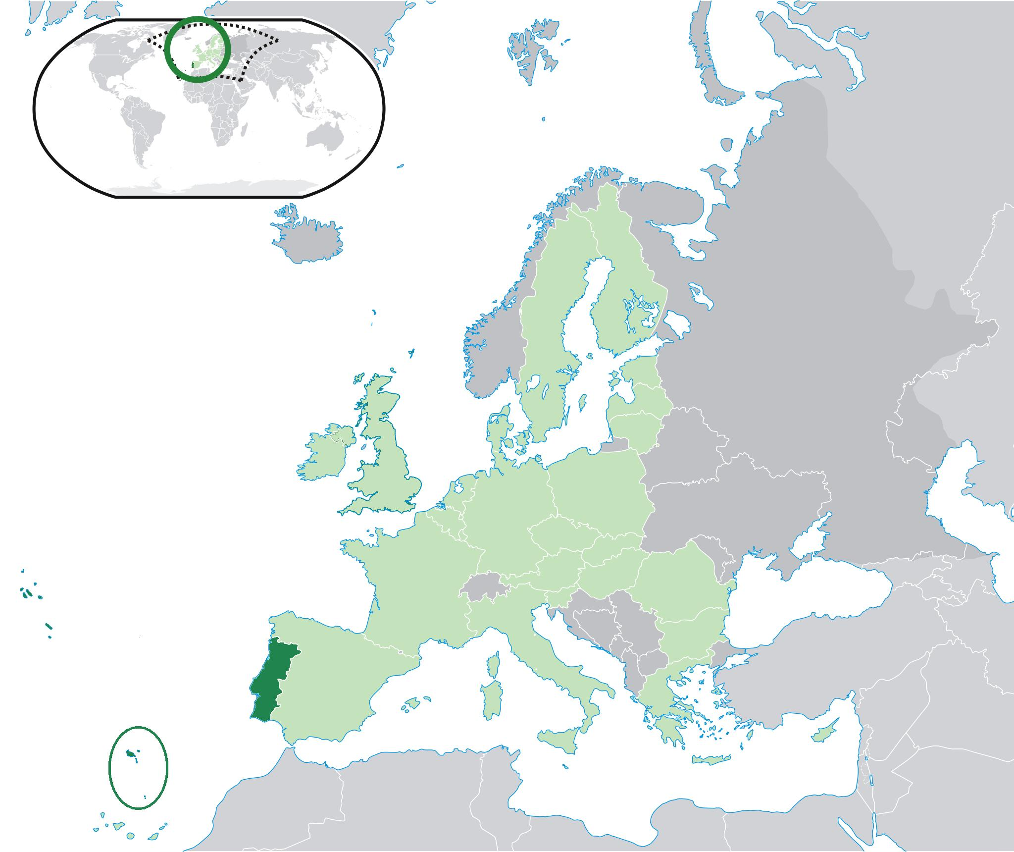 Location of Madeira Islands - Madeira Autonomous Region - (red), in Portugal (green) and in the European Union (blue).